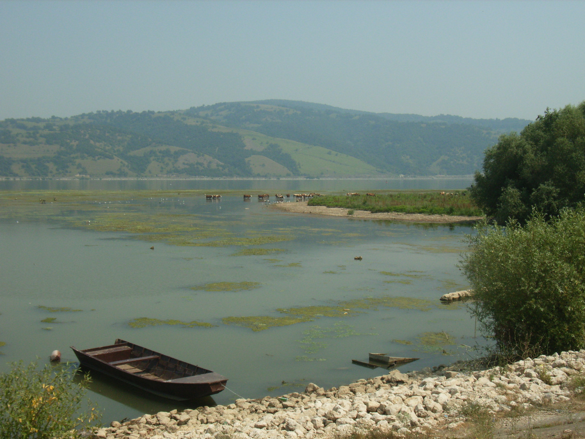 River Danube near Zatonje, Serbia.